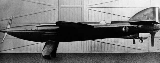 Italian Piaggio P.7 (also known as "Piaggio-Pegna P.c.7") racing seaplane